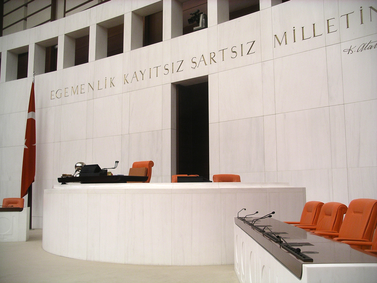 The speakers chair in the Grand National Assembly of Turkey.